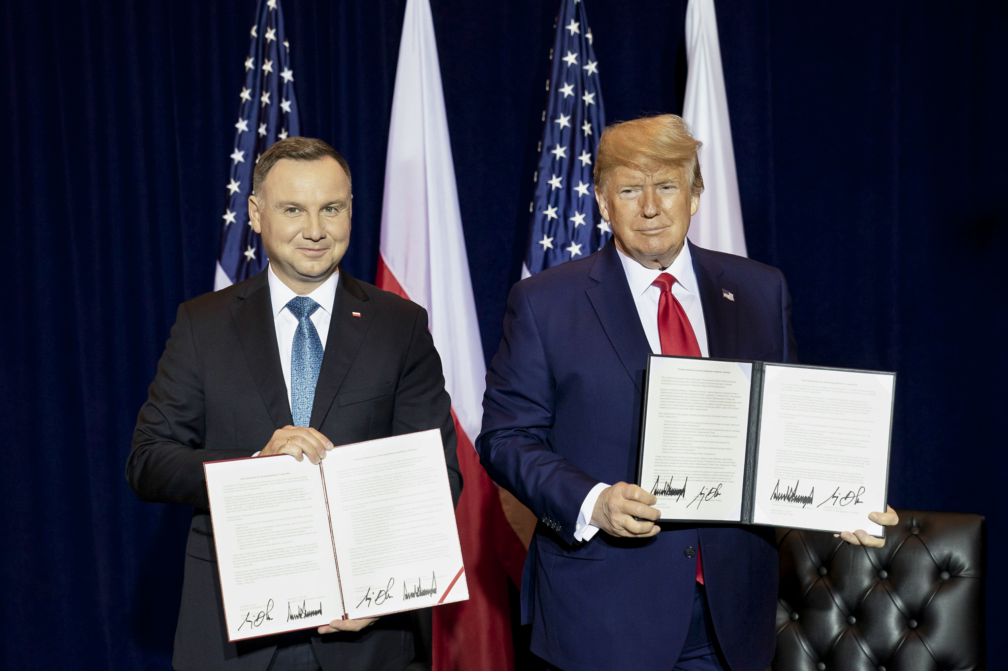 President Donald J. Trump participates in a signing ceremony with Polish President Andrzej Duda Monday, Sept. 23, 2019, at the InterContinental New York Barclay in New York City. (Official White House Photo by Joyce N. Boghosian)